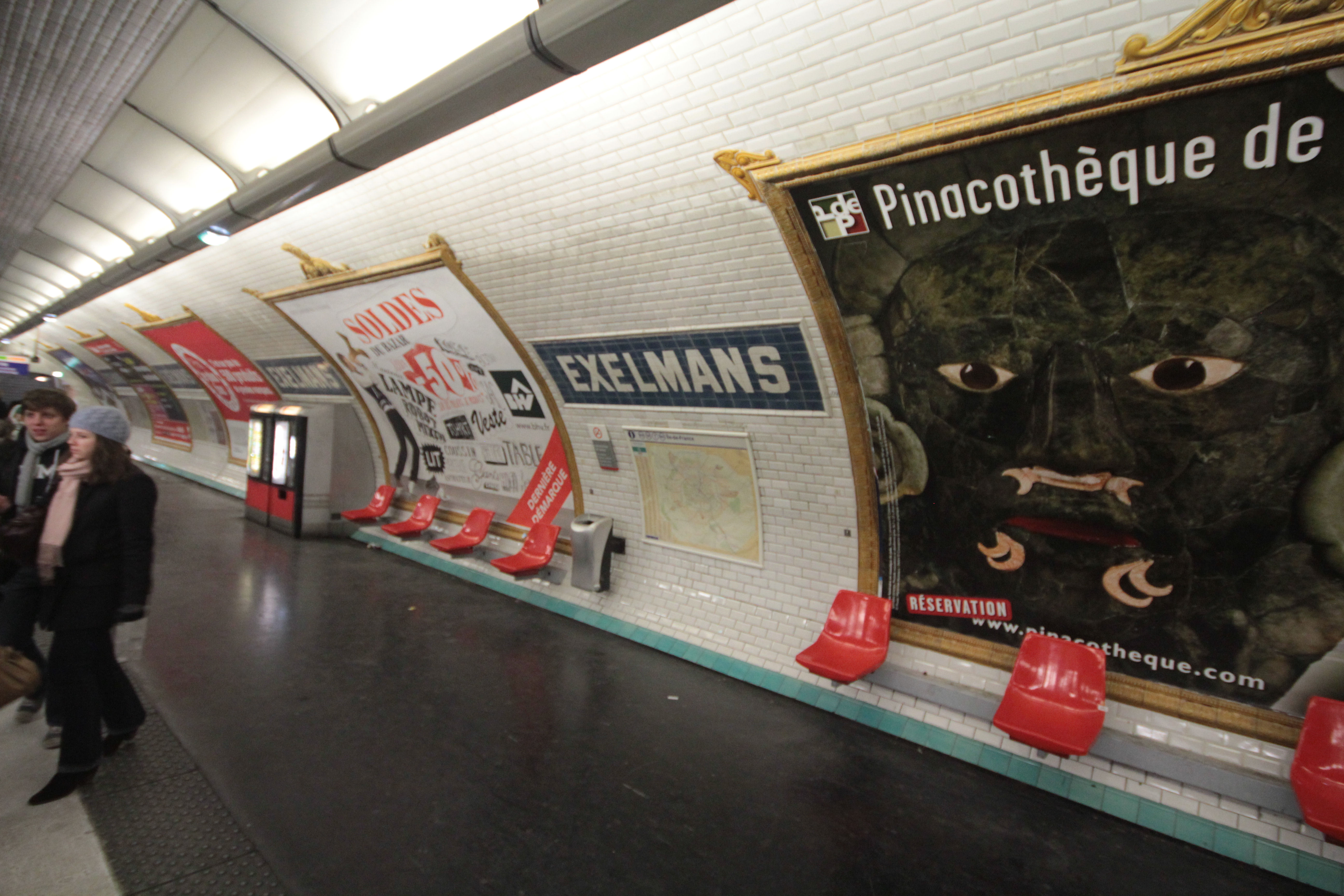 Station Exelmans on Parisian metro line 9